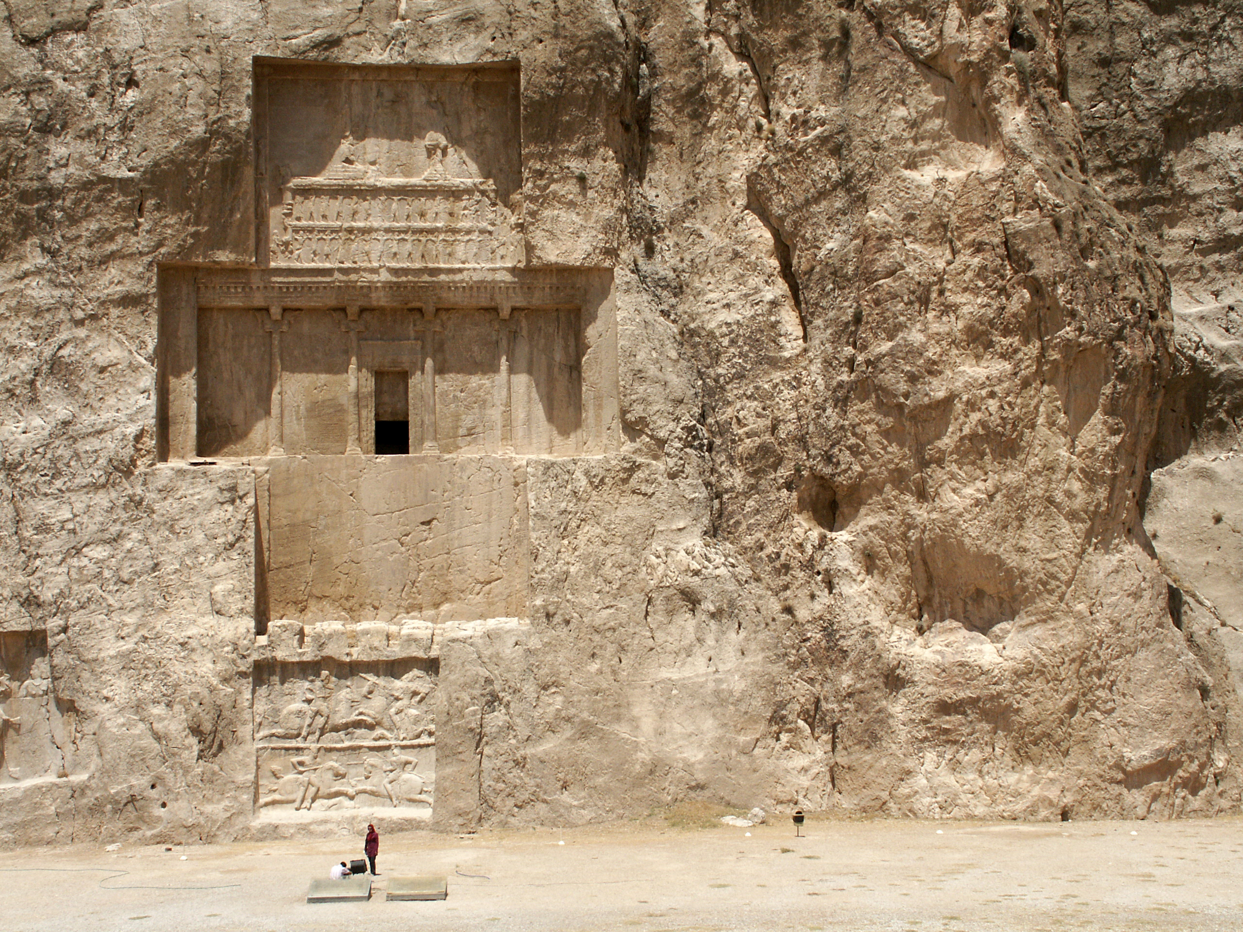 Achaemenid tomb in, Shiraz, Iran.